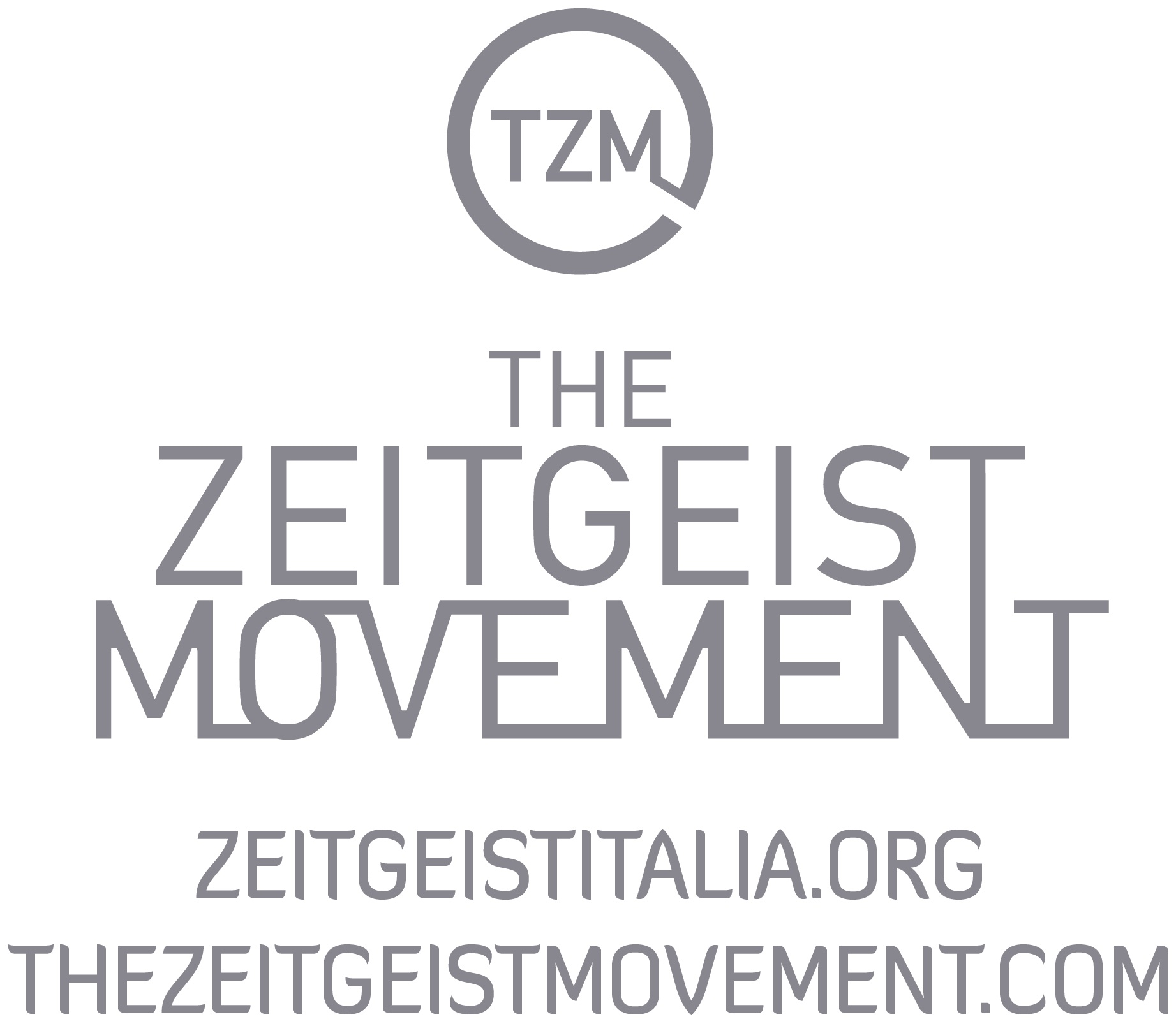 Logo and websites of the international and Italian community of The Zeitgeist Movement